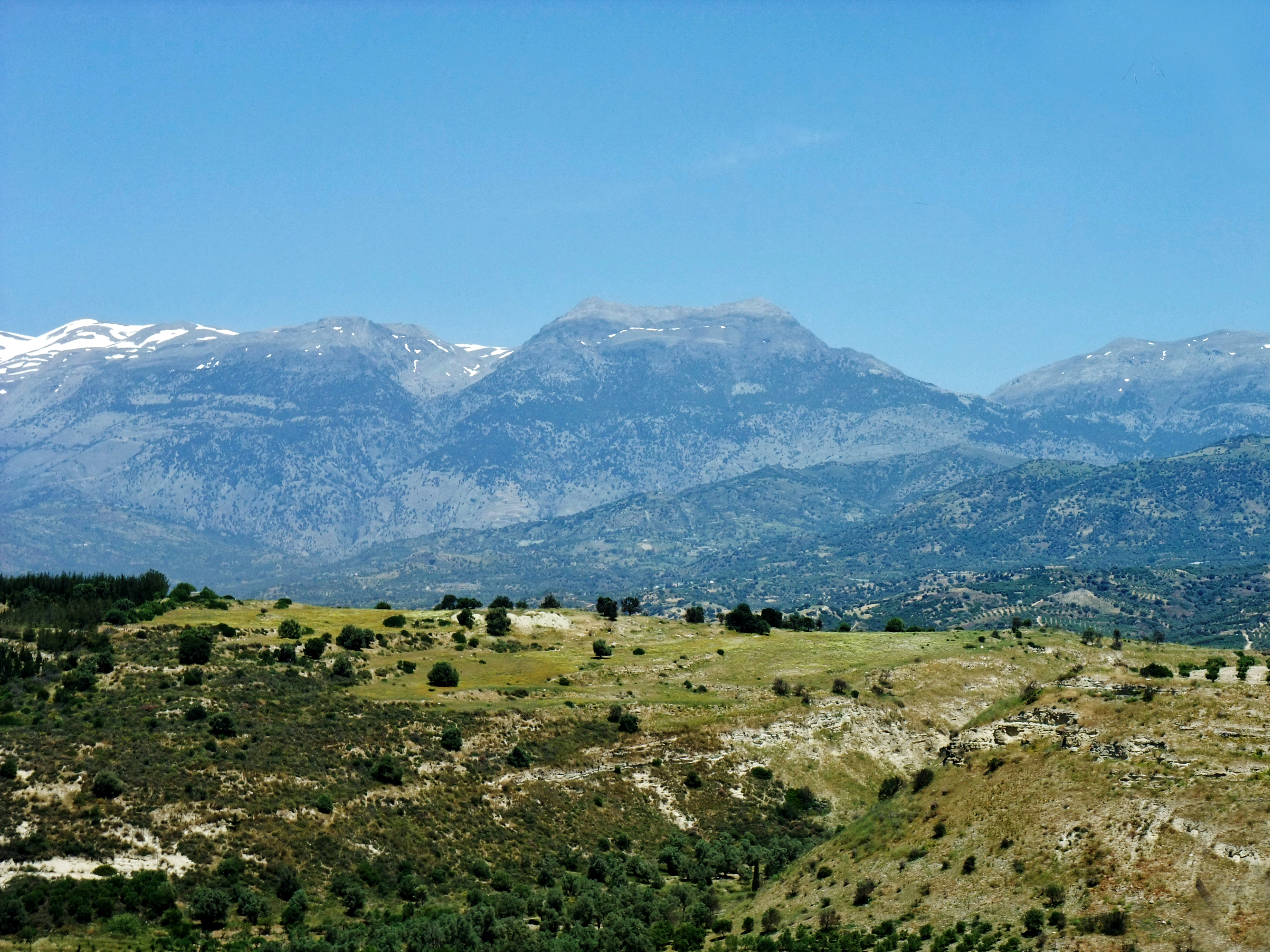 View from the archaelogical site Phaistos to the Ida Range, Crete, Greece